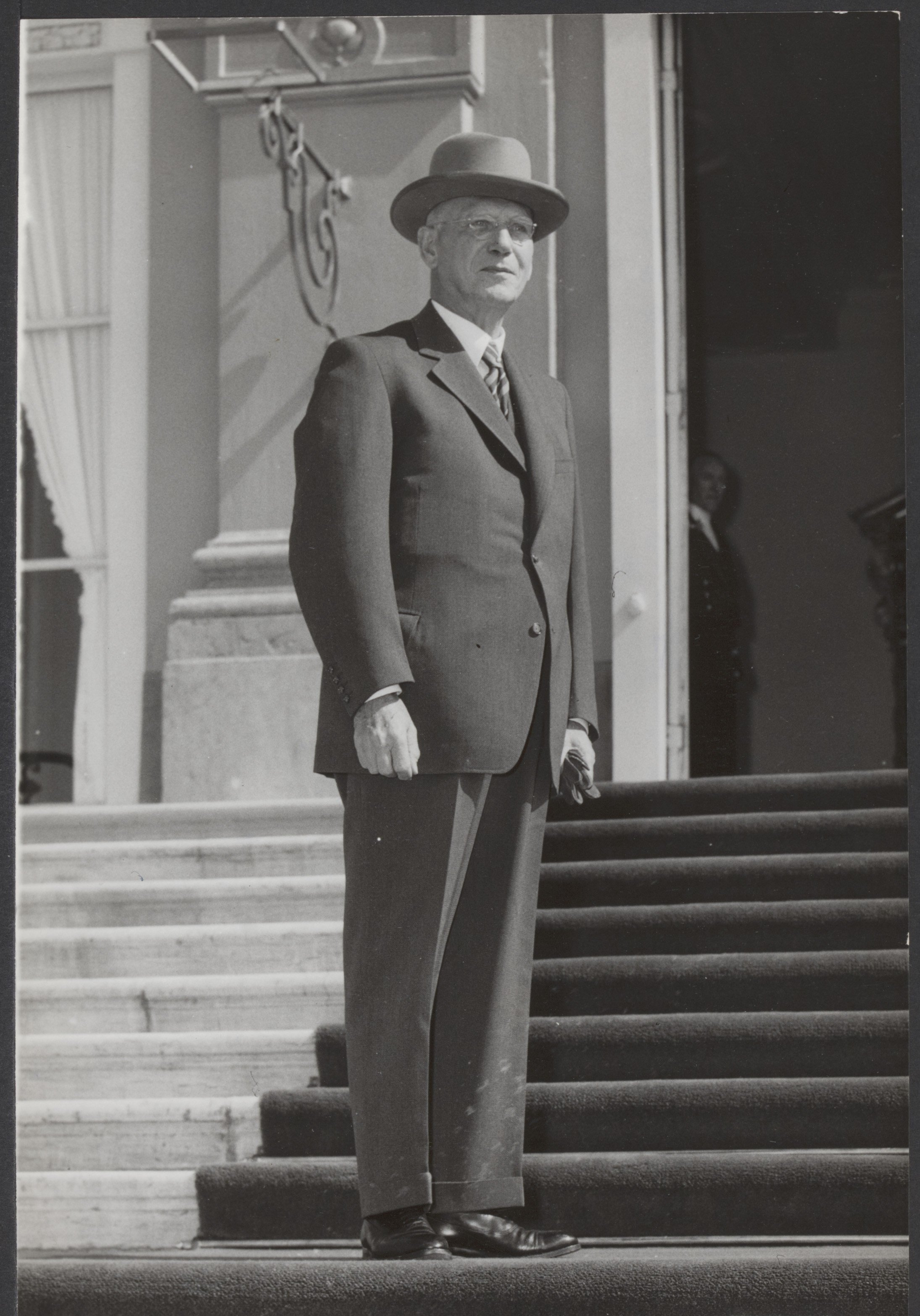 Donderdagmiddag heeft H.M. de koningin (Juliana) de adviseurs voor de kabinetsformatie te Den Haag ontvangen. A.A.L. Rutgers, vice-president Raad van State, op de trappen van het paleis. Datum 14 juni 1956